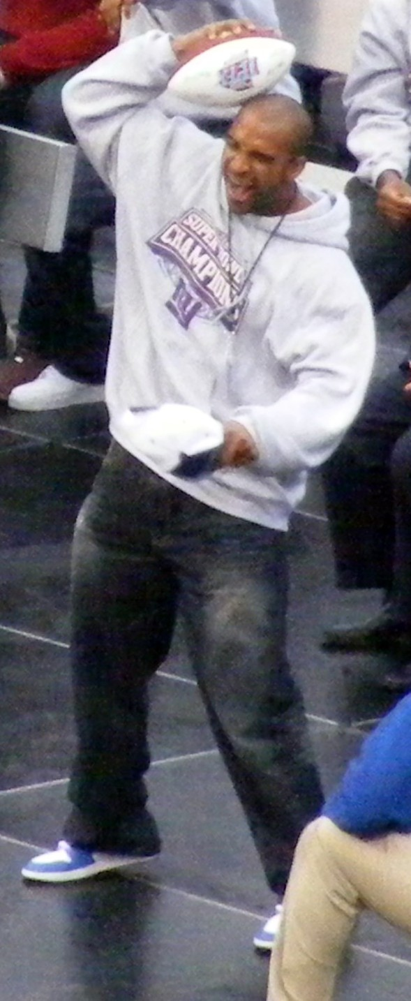 David Tyree at the Giants Rally after victory in Super Bowl XLII.